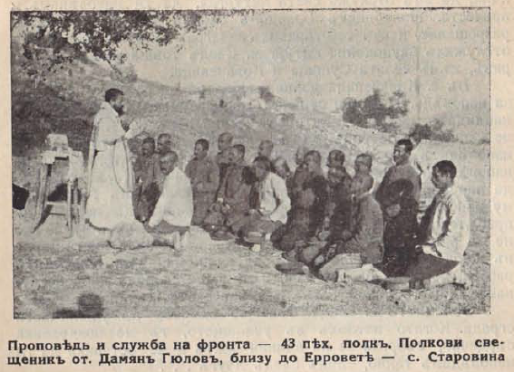 Father Damian Gulov's Prayer and Service during the First World War